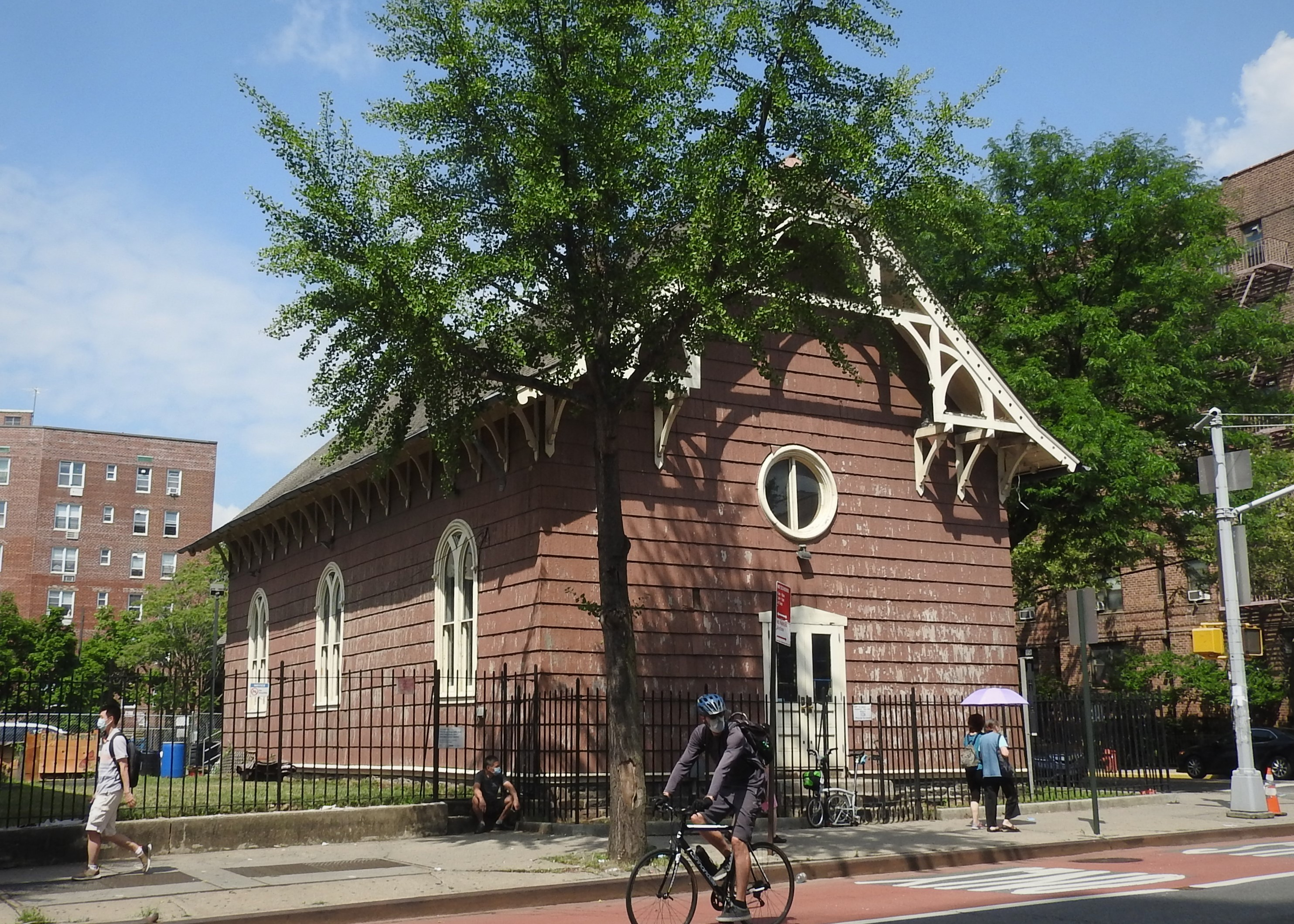 Looking west across Broadway on a hot sunny late morning